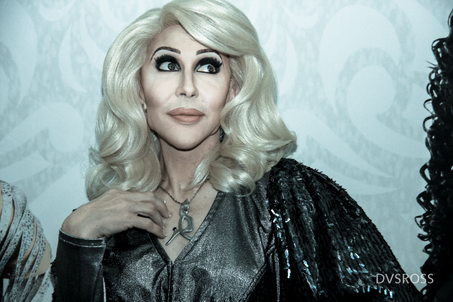 Chad Michaels at RuPaul's DragCon LA 2018